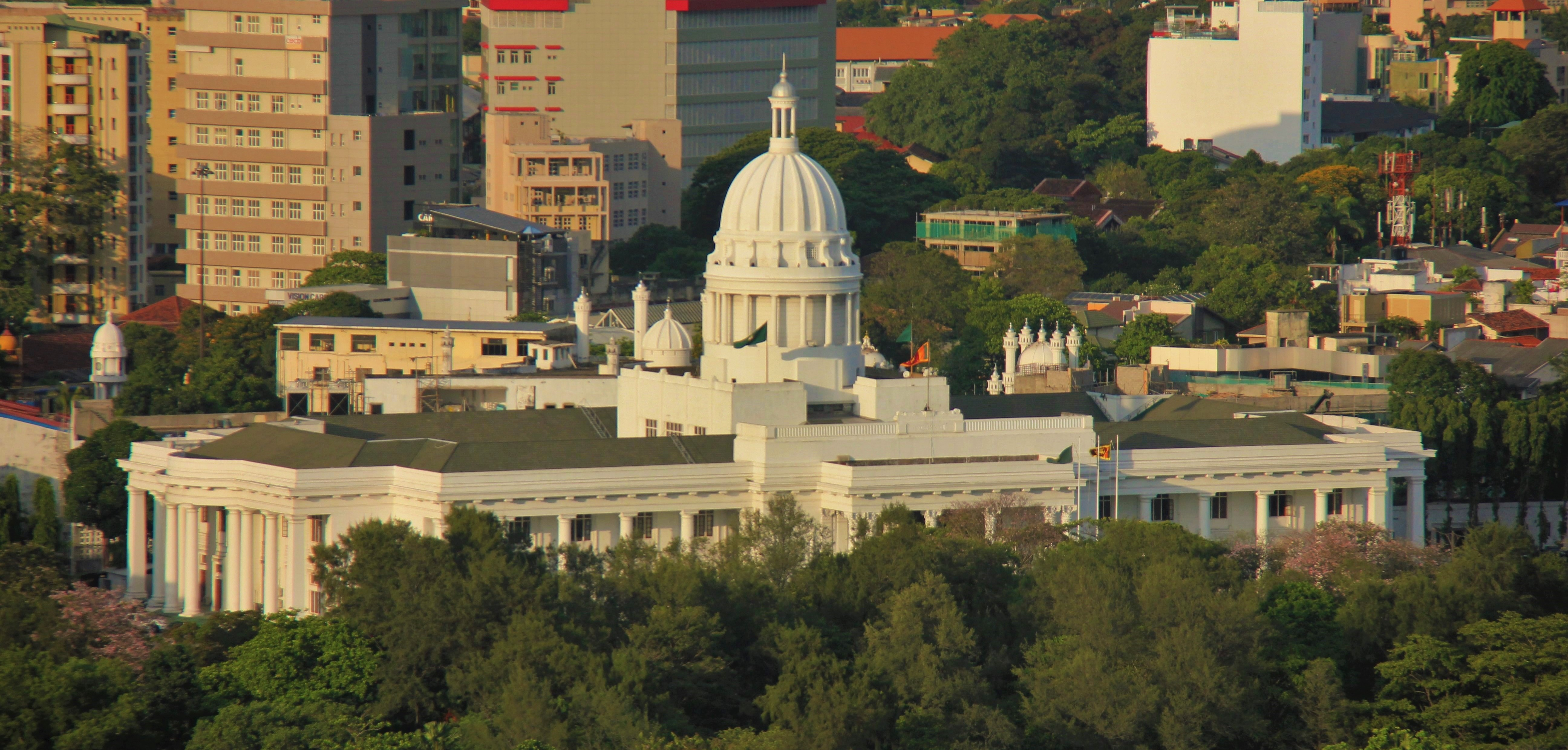 Colombo Municipal Council building at C W W Kannangara Mawatha in Colombo